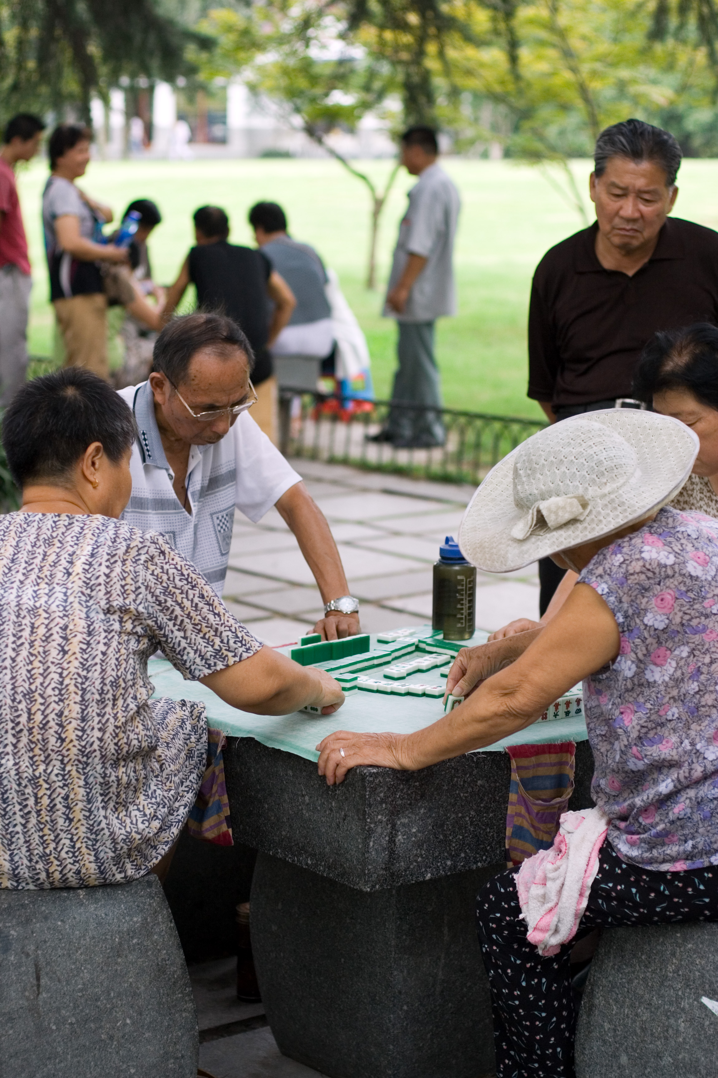 The garden on the east coast of Hangzhou's lake was full of elderlies playing majhong.